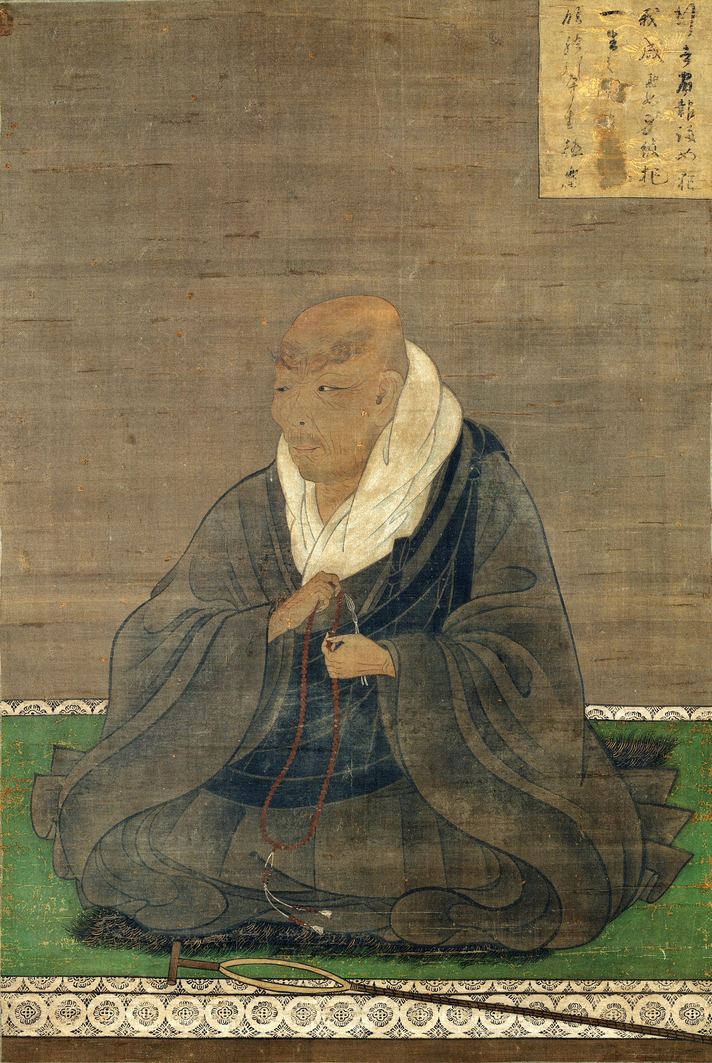 Shinran Shonin, Nara National Museum, Japan